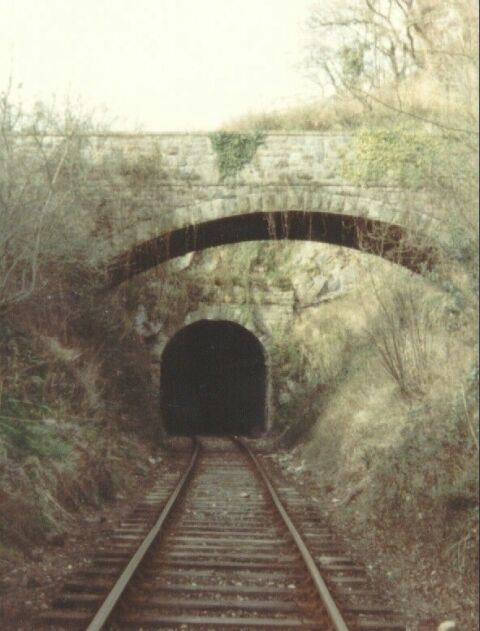 Tidenham Tunnel. Supplemental to the existing geograph, the southern portal of the now disused 1188yd, single track Tidenham Tunnel on the former GW line between Netherhope Halt and Tintern, taken from the site of the former Netherhope Halt in 1980.